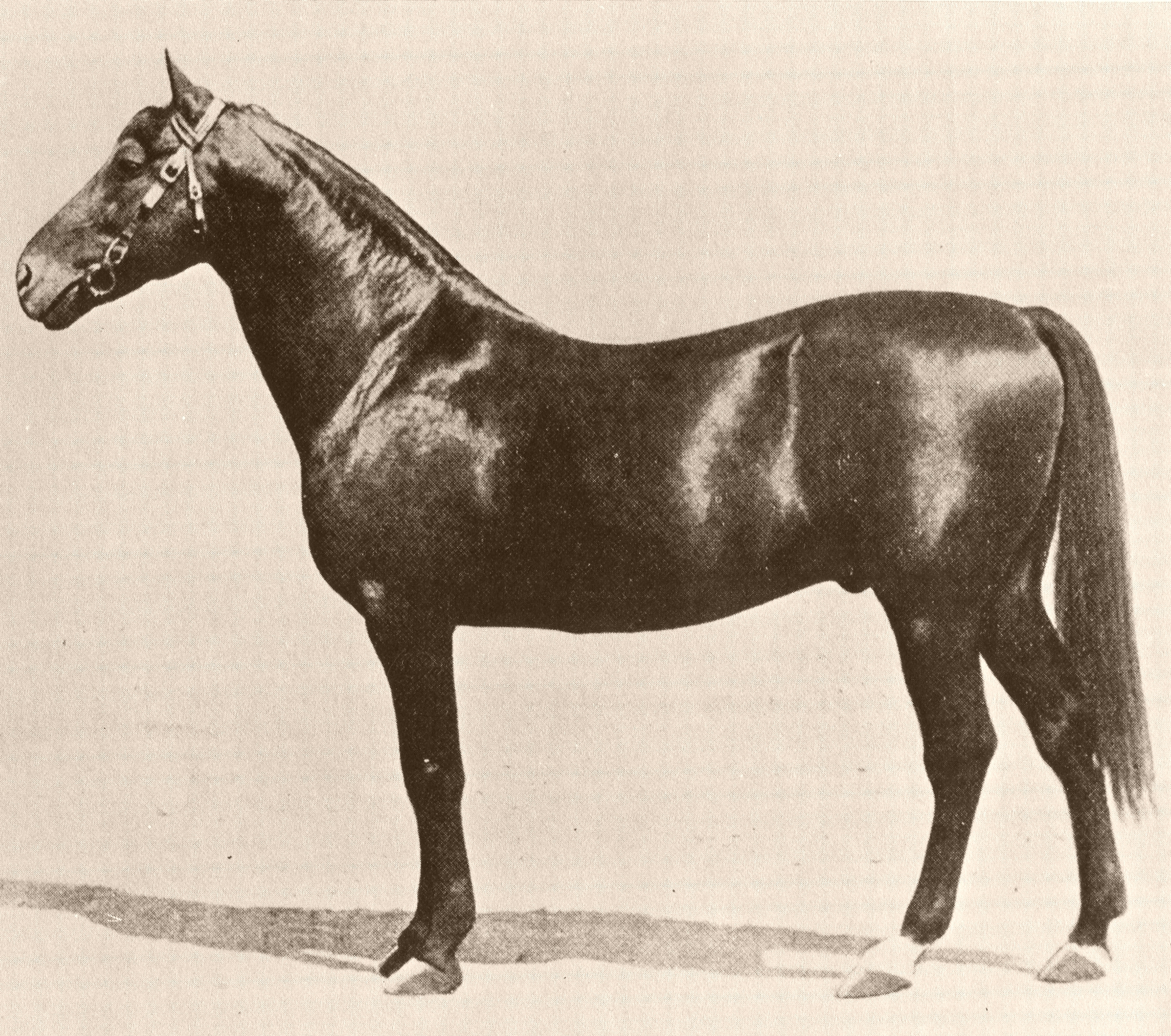 Childe Harold (USA) a Standardbred stallion that won the International Trot at Liverpool, England, and races in France, Ireland, Scotland, France, Germany and also in Russia, before being exported to Australia. This stallion produced superior quality trotters and 45 of his sons became sires.